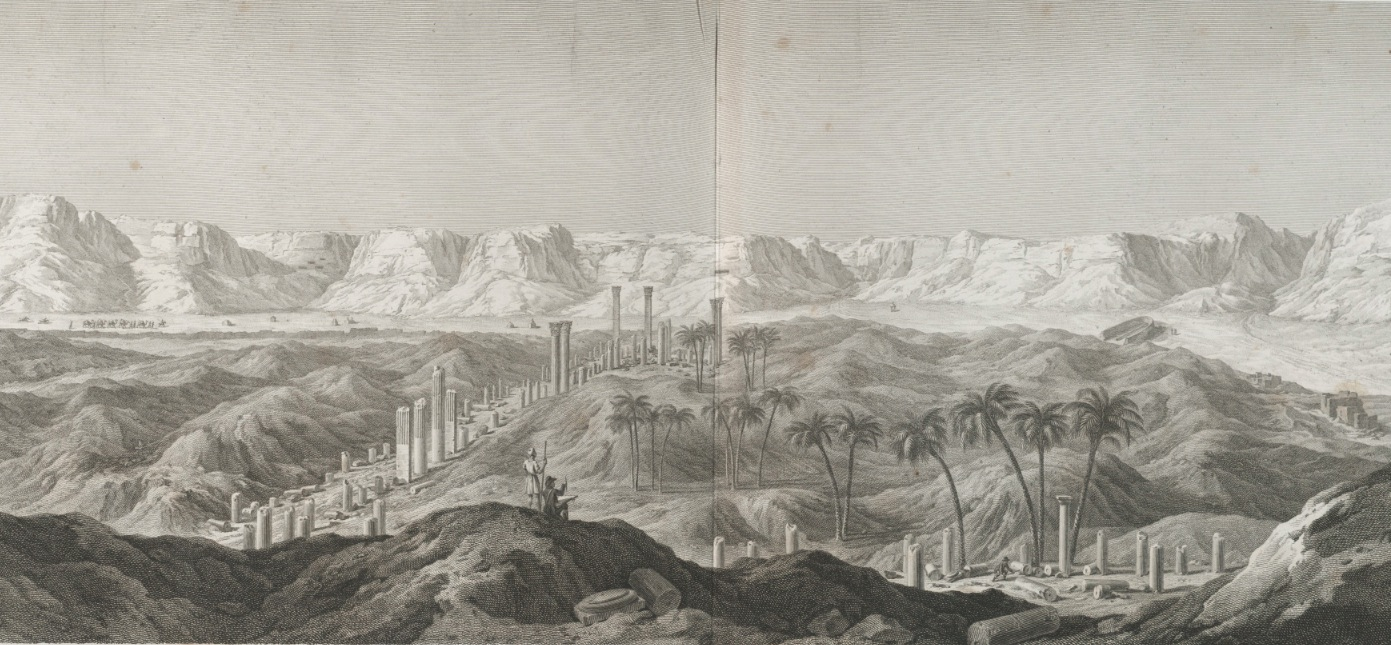 Antinopolis. View of the ruins, from south west.